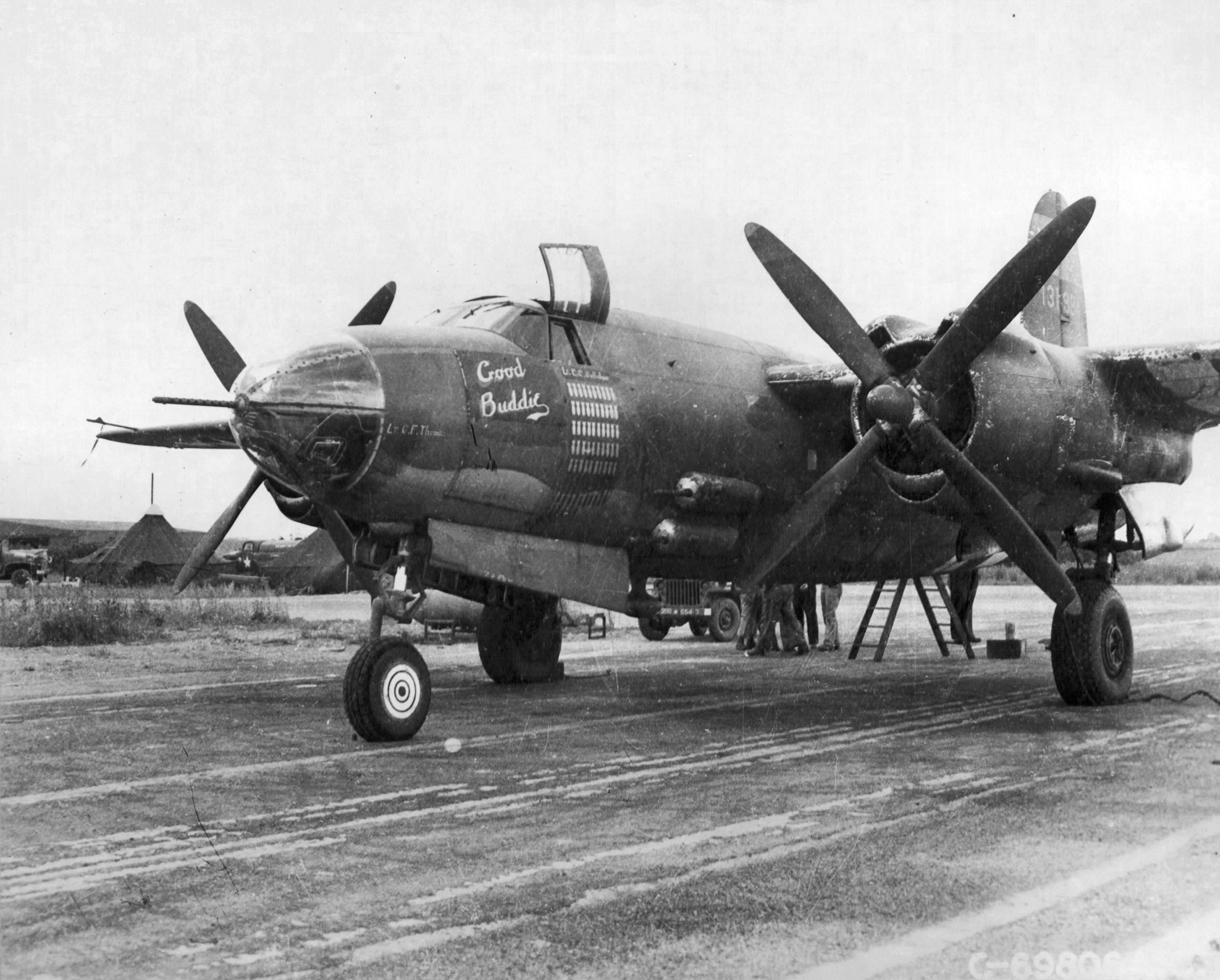 B-26B-35-MA Marauder 41-31984 "Good Buddie" 554th Bombardment Squadron 386th Bombardment Group 1943 The official caption stated this was taken at RAF Boxted,Essex (USAAF Station 150) which would mean this was from between June 10 and September 29, 1943.